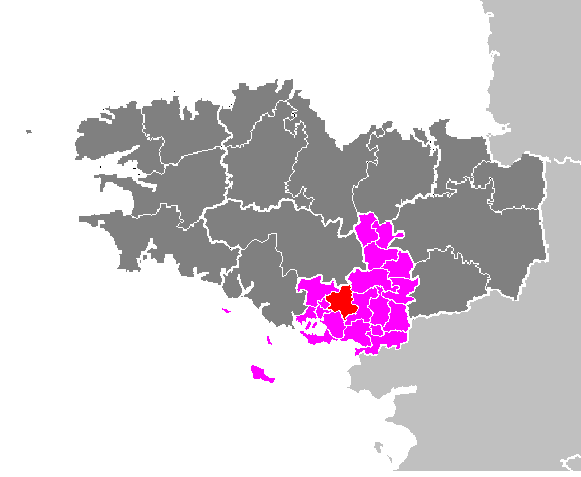 Maps of arrondissements and cantons of France: Arrondissement de Vannes - Canton d Elven.PNG